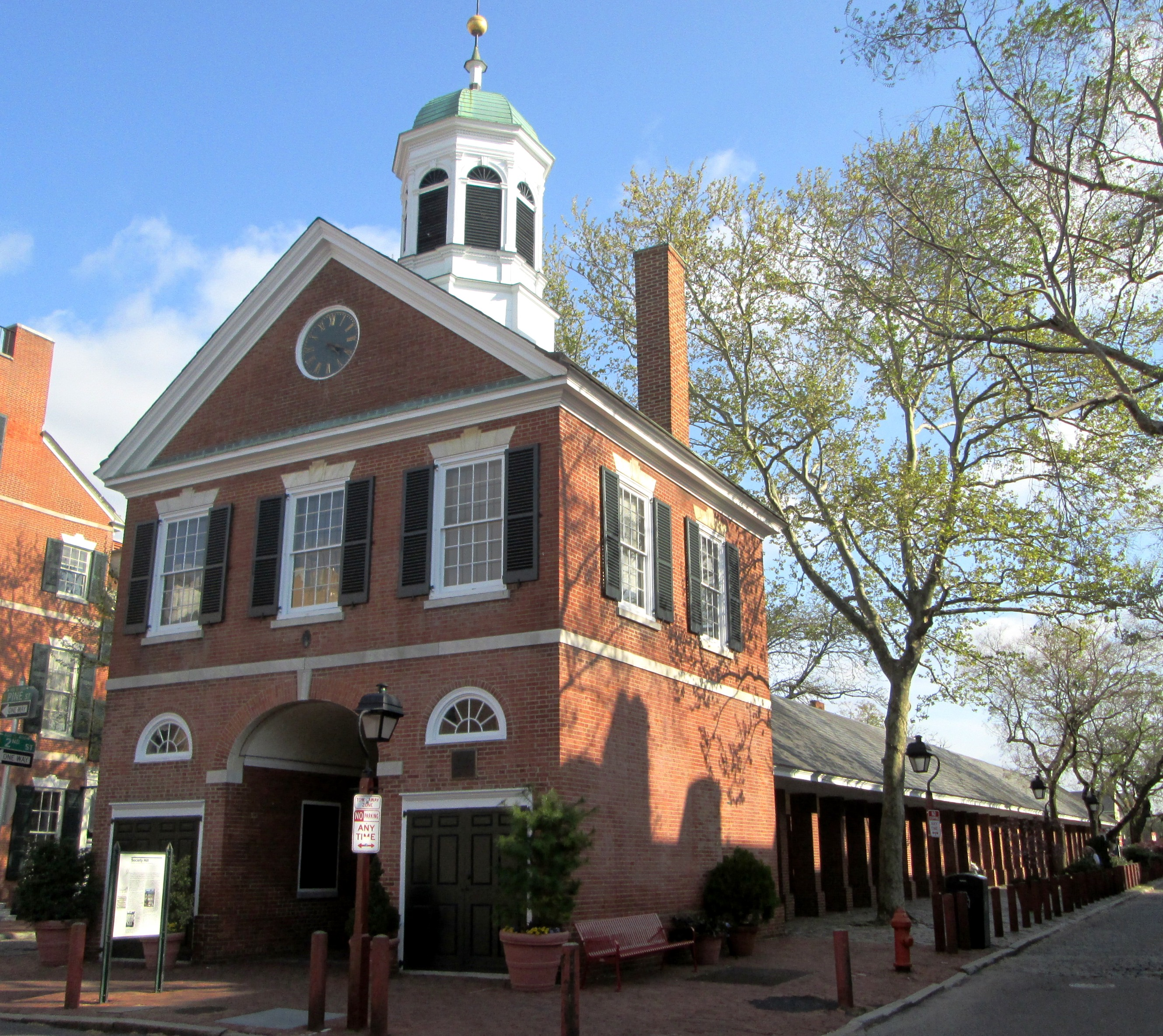 New Market is a historic street market on S. 2nd Street between Pine and Lombard Streets in the Society Hill neighborhood of Philadelphia, Pennsylvania. It was founded in 1745 and originally consisted of 16 stalls. In 1804 the Head House, a Georgian-style brick firehouse with Federal-style ornamentation, was built at the north end of the market; the building's cupola once housed a firebell. The fire house is the oldest extent in the United States, and is now used as a community center. The market structure was demolished in 1950 but rebuilt in the early 1960s, and the Head House was restored. (Source: Philadelphia Architecture: A Guide to the City (2nd ed.))